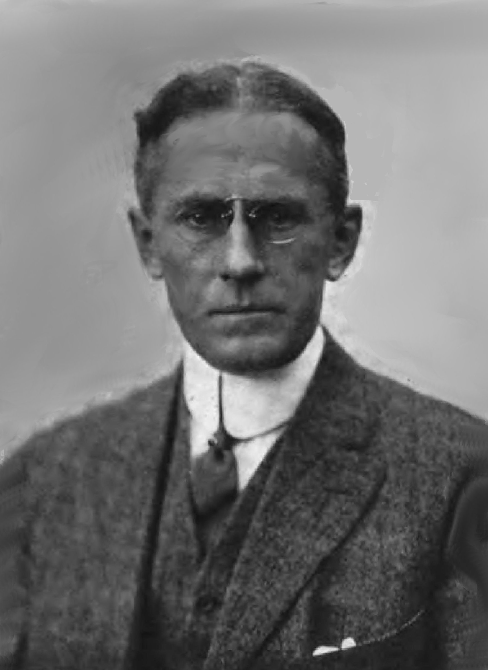 Edison himself played no direct part in the making of his studio's films beyond being the owner, appointing successive men as vice-president and general manager, including Horace G. Plimpton (1909–1915).